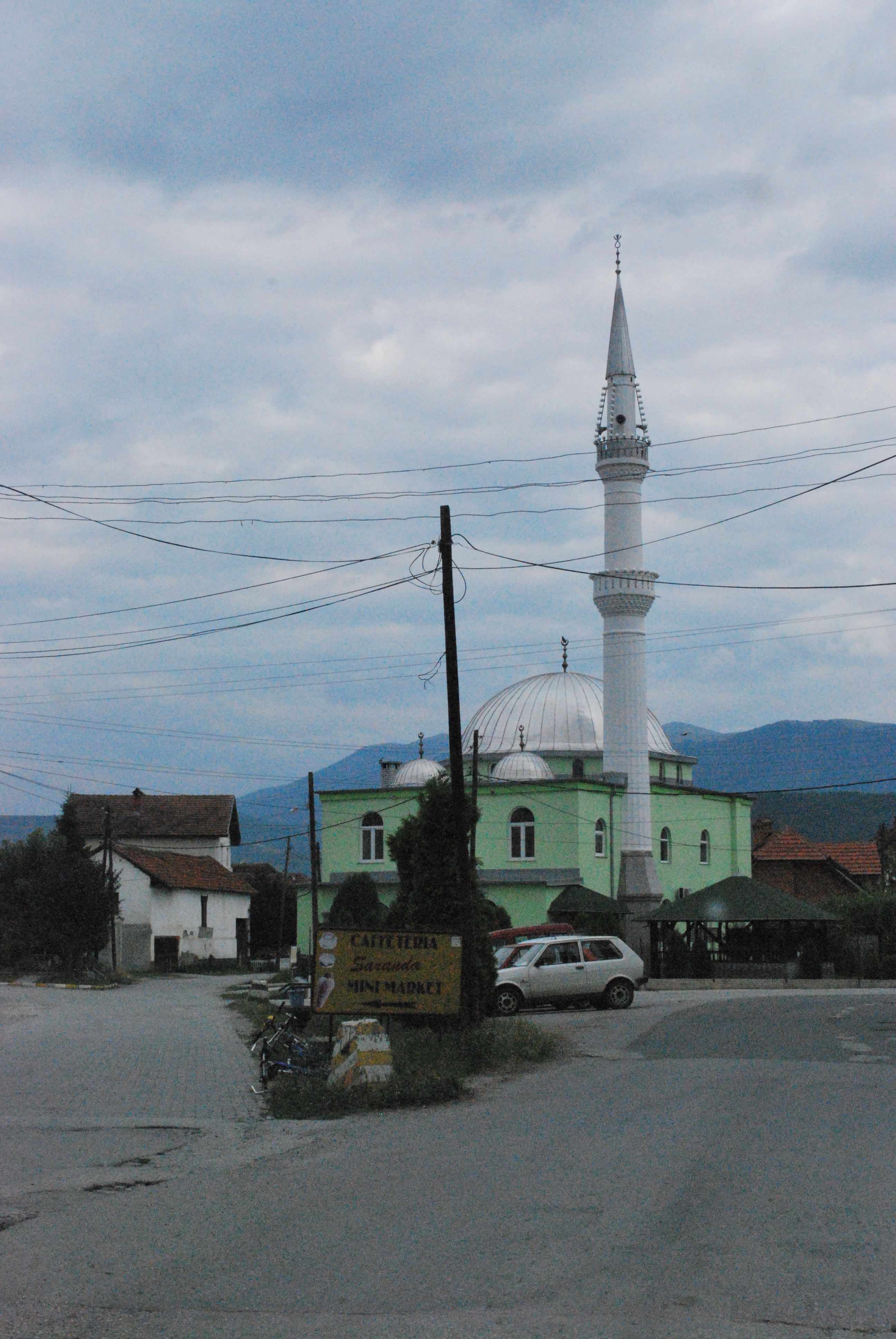 Mosque in Žerovjane, Macedonia